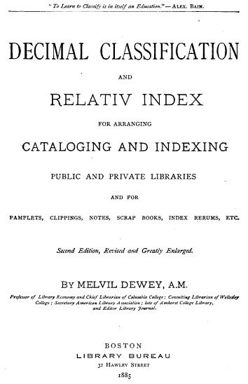 Title page of Library Bureau publication, 1885